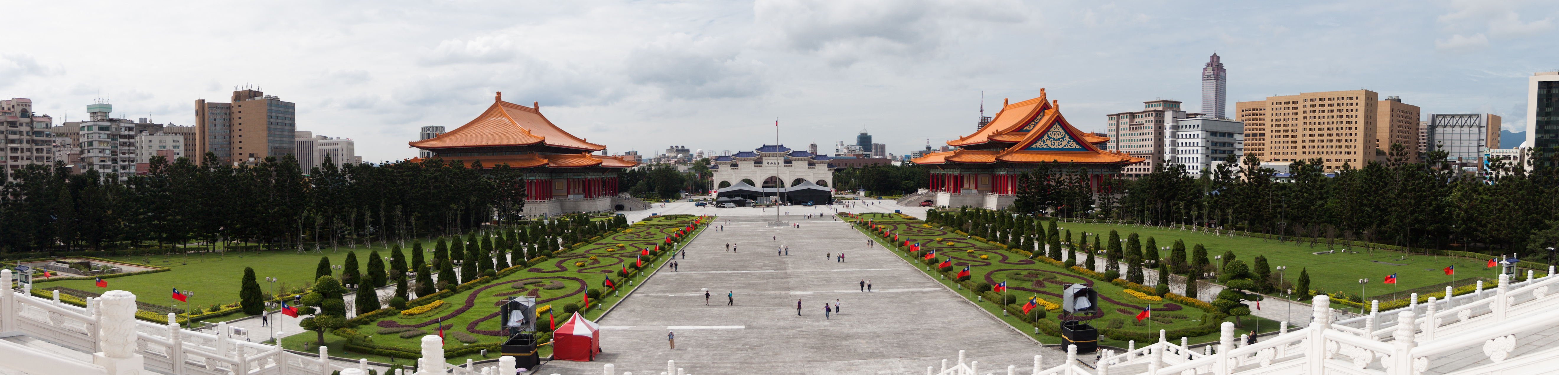 Panorama of Liberty Square from Chiang Kai-Shek Memorial Hall